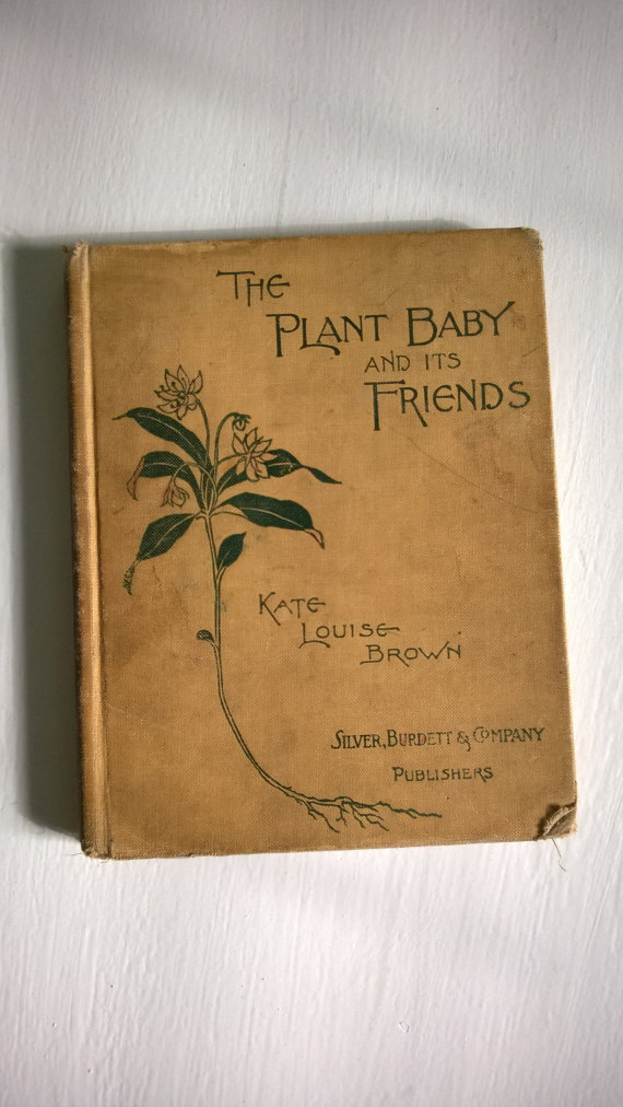 This is a picture of Kate Louise Brown's popular book, The Plant Baby and Its Friends.